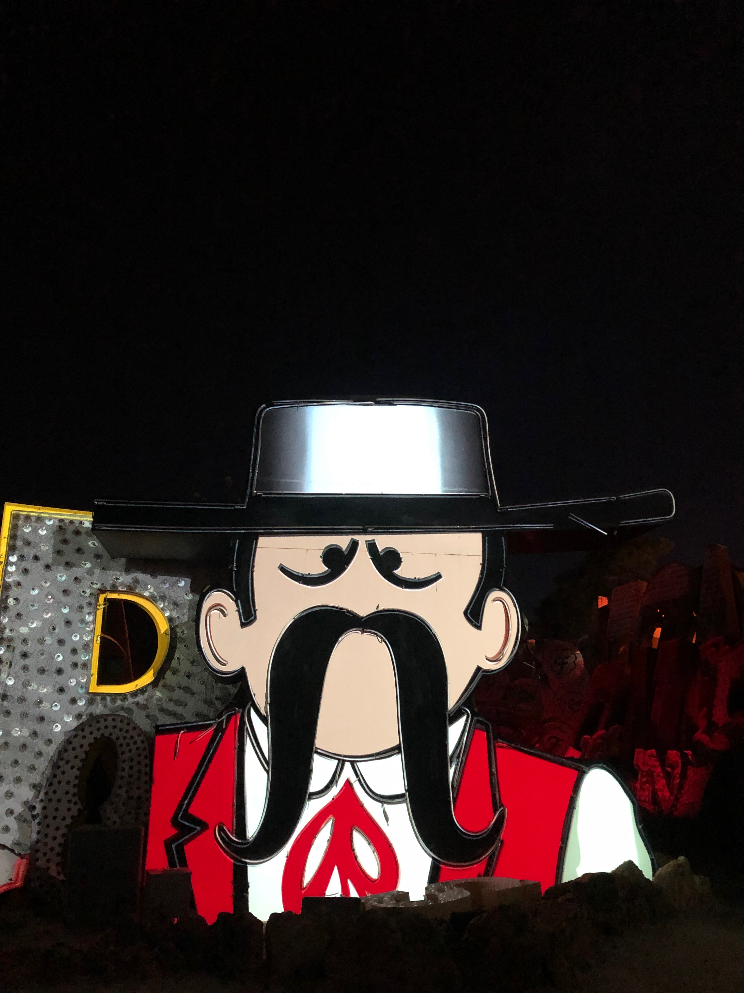 Terrible Herbst cowboy at the Neon Museum during Brilliant!